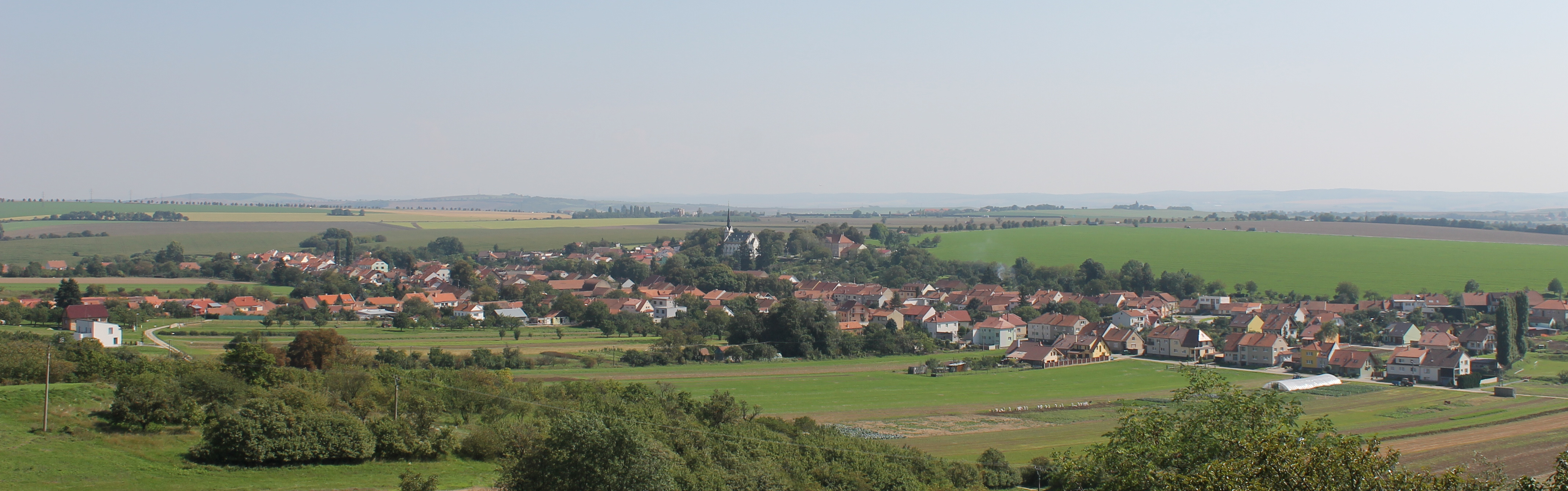 Panorama of the village Tvarožná (September 2014)